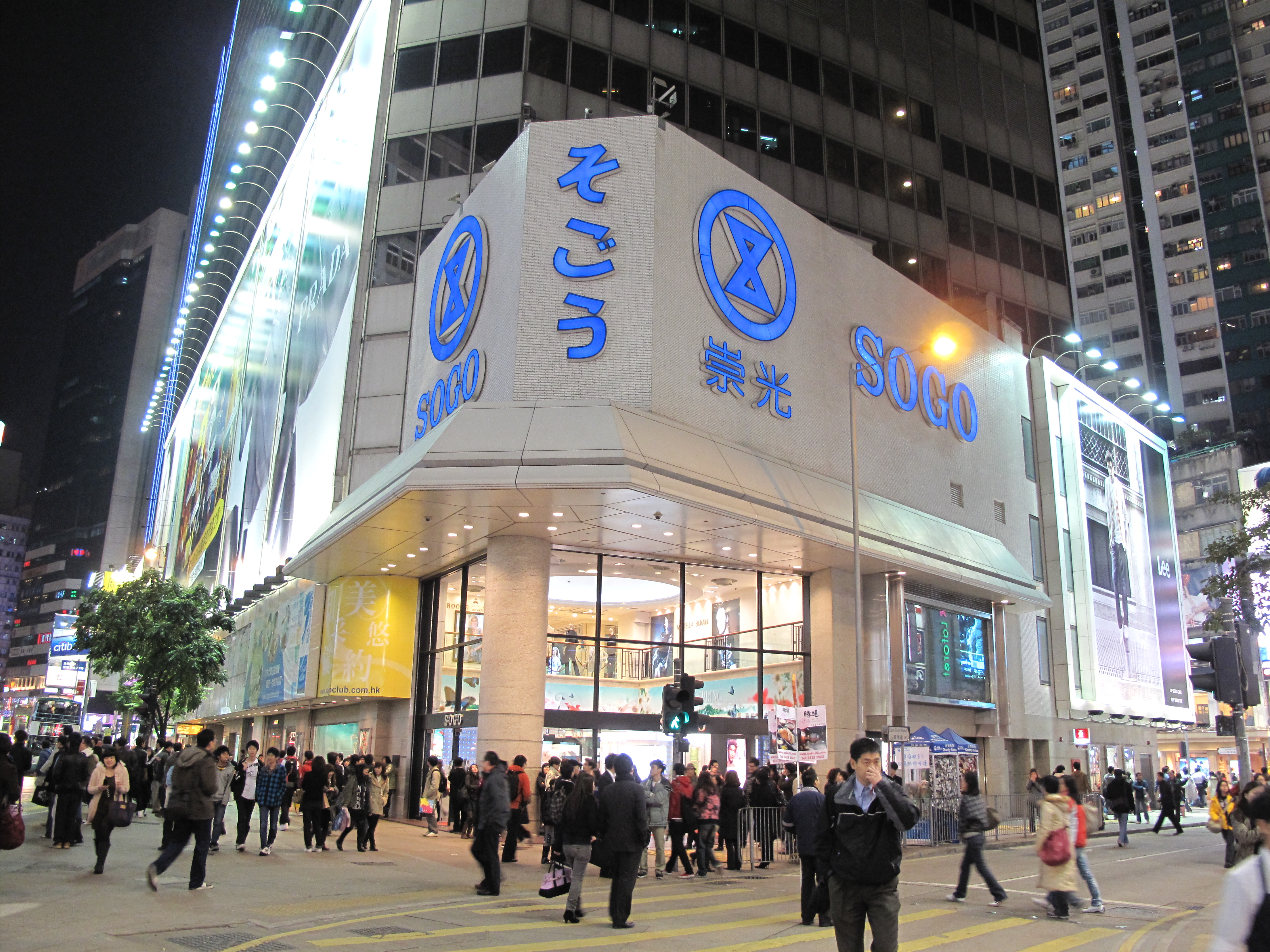 Photo of Sogo Department Store at Causeway Bay